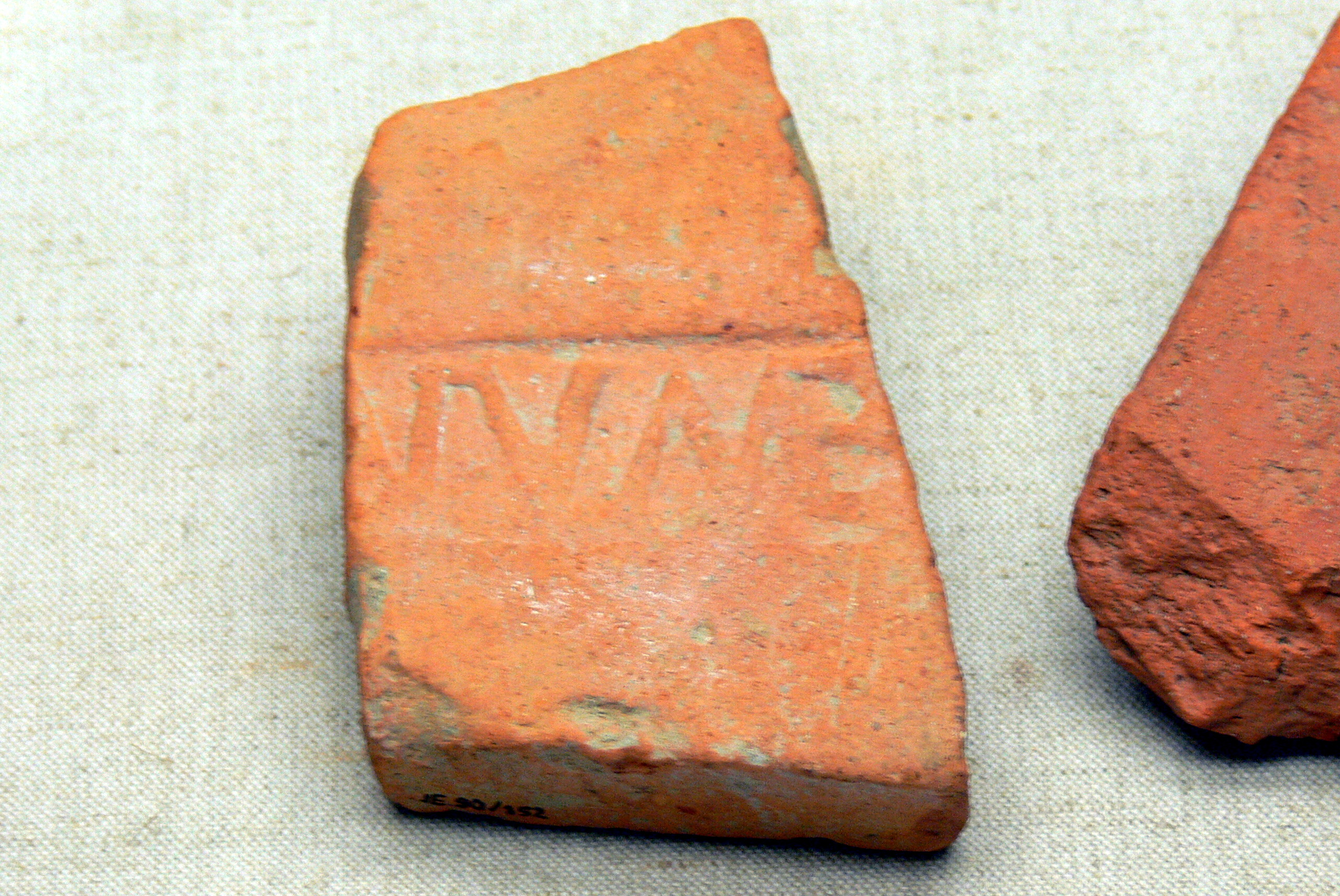 Roman museum Kastell Boiotro ( Passau ). Ancient Roman brick stamp NUMB of the Numerus Boiodurensium ( 3rd century AD ).